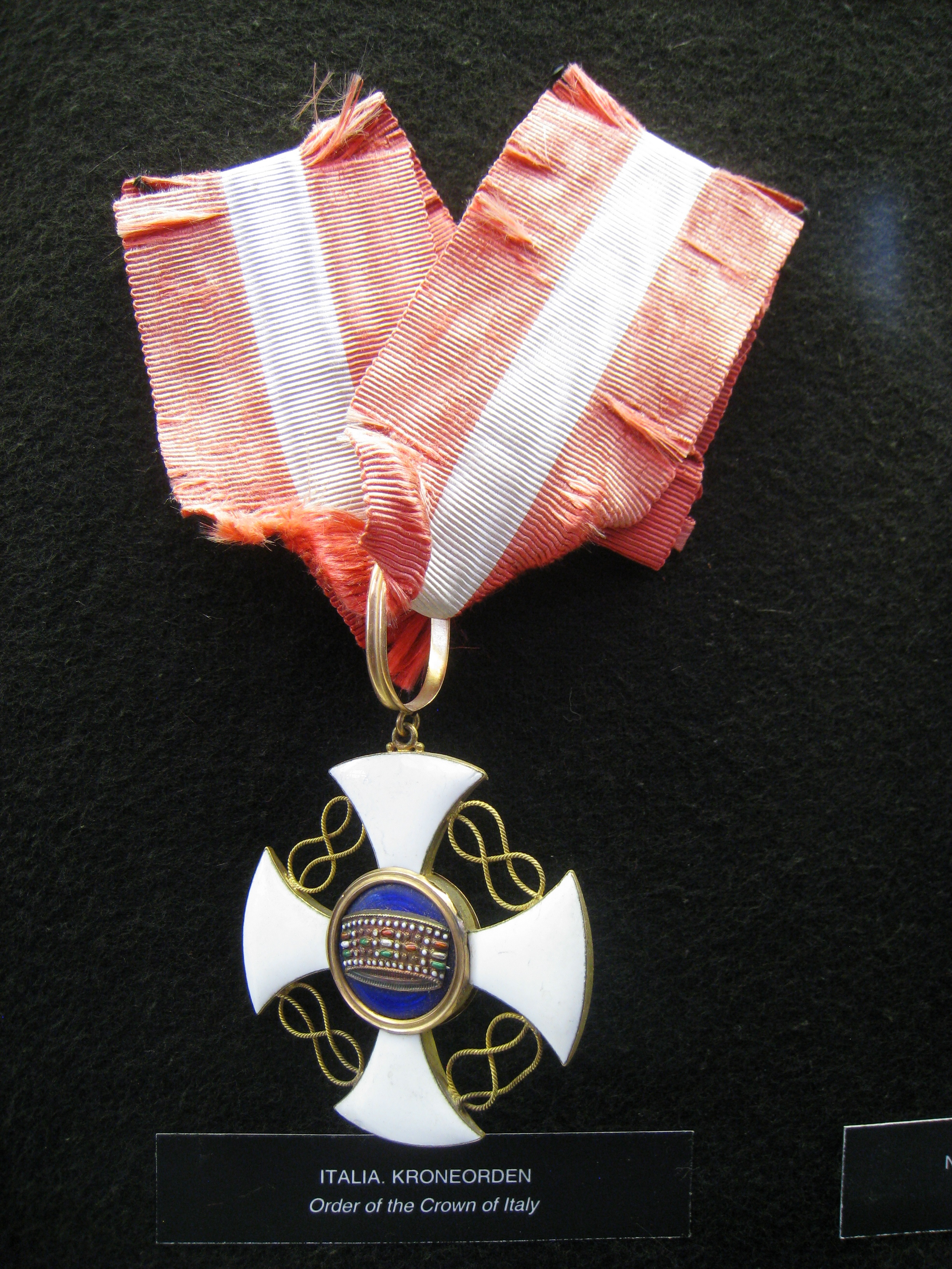 Order of the Crown of Italy, from the collection of Don Pedro Christopherson. In the Fram Museum, Oslo, Norway.